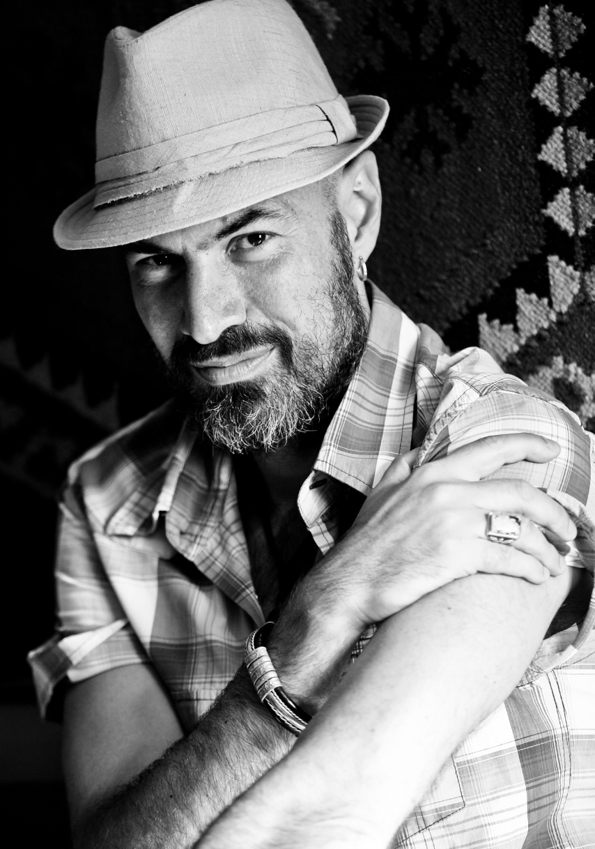 Unpublished, romotional picture of Saverio Principini taken by me, Locke Dunn and used with my permission for wikipedia.